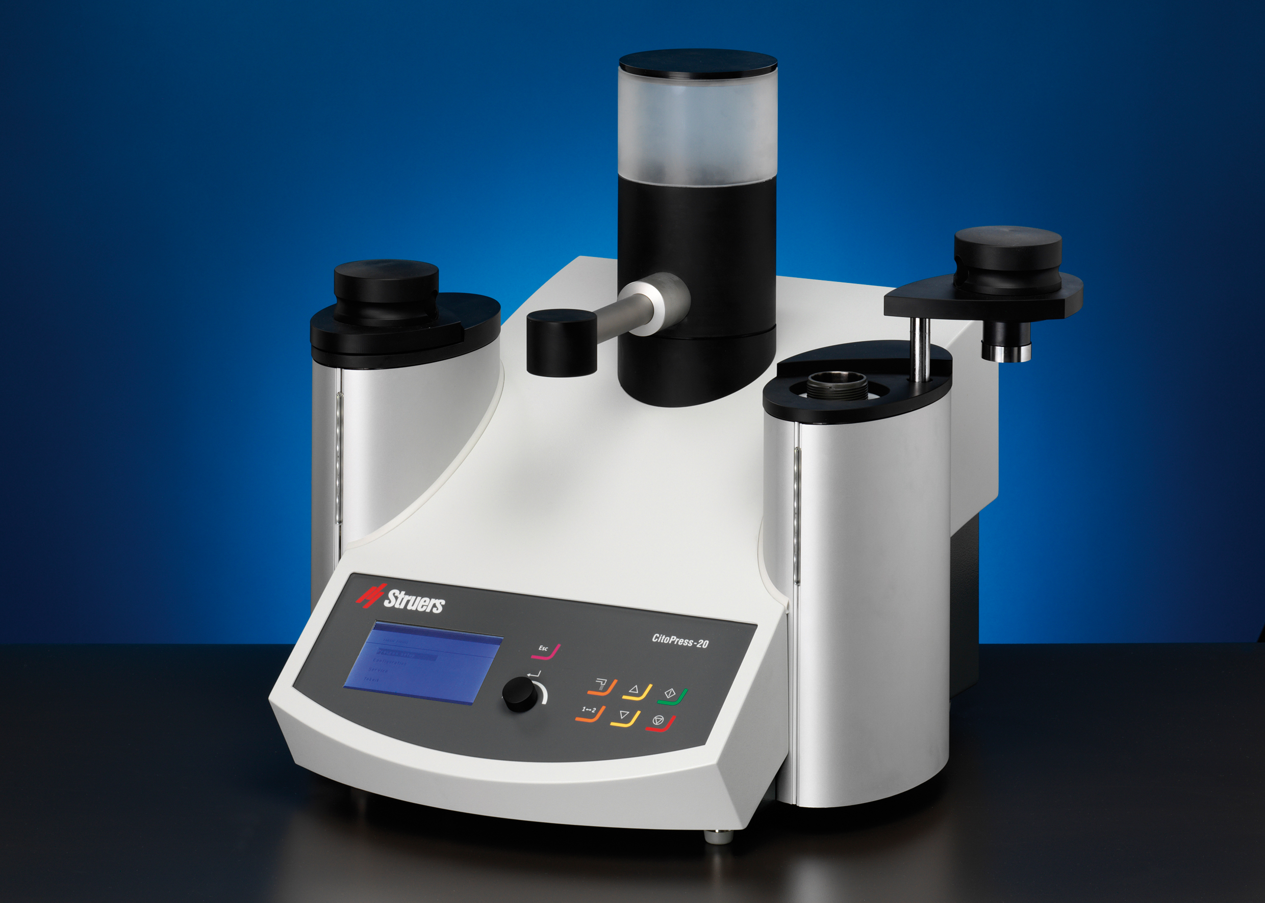 CitoPress hot mounting press